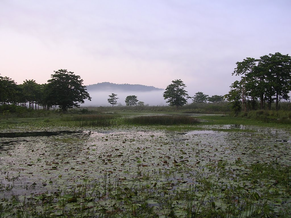 Early morning views over flooded lagoons associated with Lake Iralalaro, Malahara, Lautem, Timor-Leste